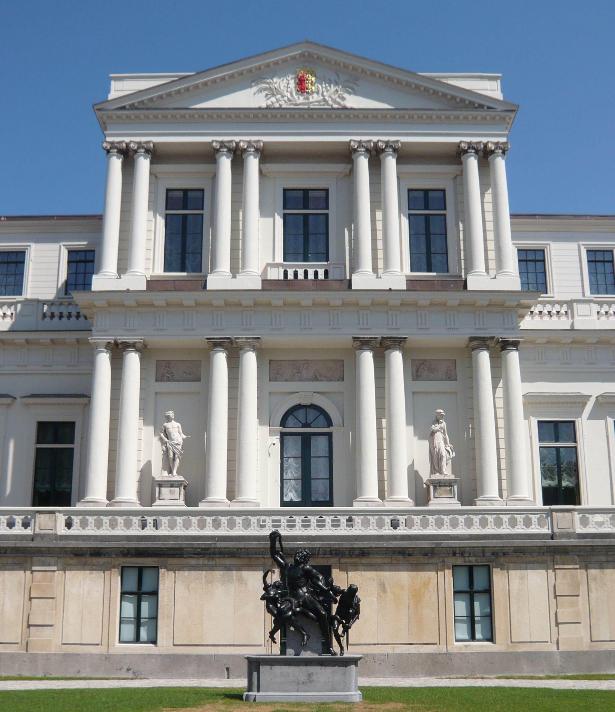 Villa Welgelegen after 2009 restoration. Also shows restored bronze of Laocoön and His Sons.